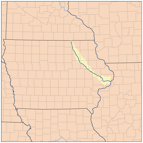 Map of the Wapsipinicon River watershed in Iowa.